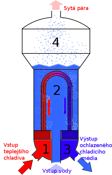 Czech version of steam generator. Schéma parogenerátoru pro českou wikipedii.